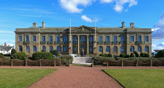 County Buildings, located in Ayr, is the headquarters of South Ayrshire Council